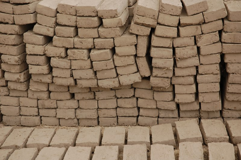 Mattoni crudi